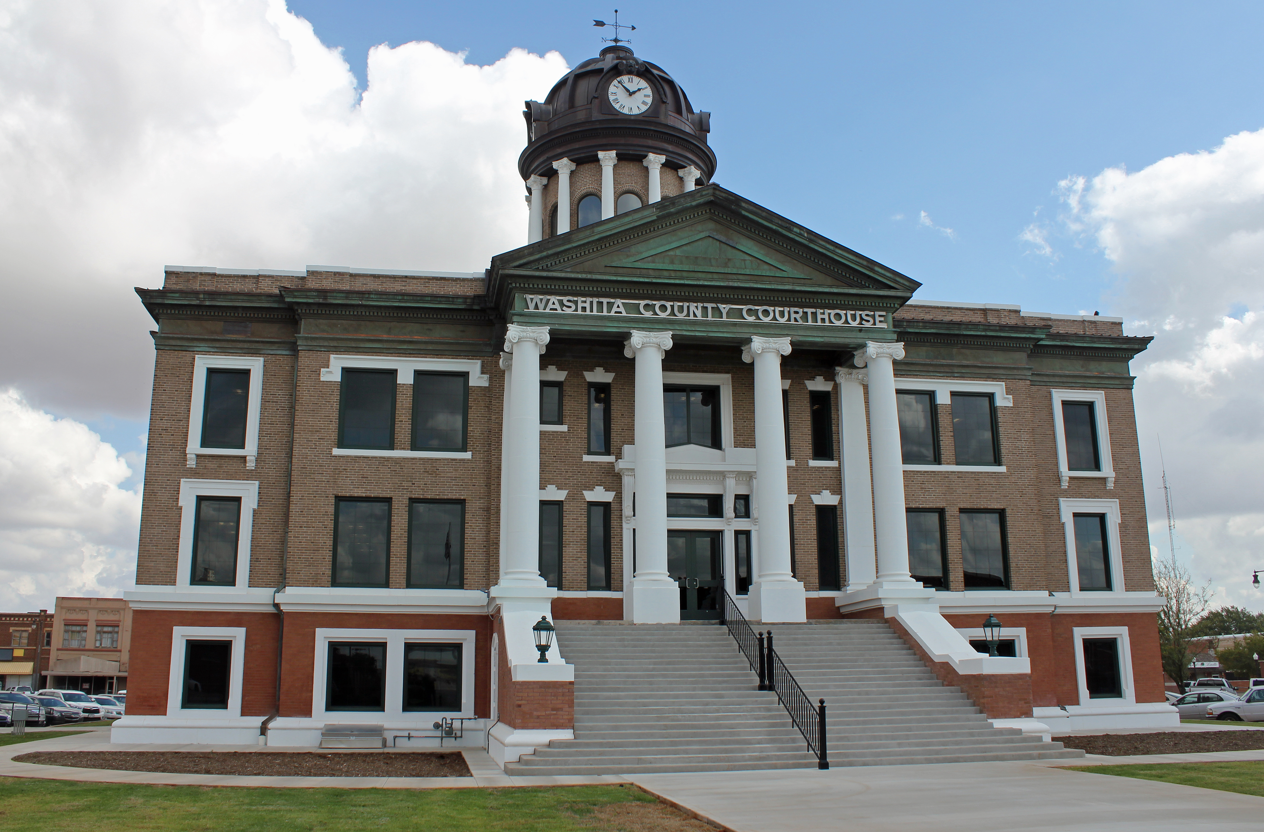 The Washita County Courthouse in New Cordell, Oklahoma. The property, reonvated in 2015, is listed on the National Register of Historic Places.